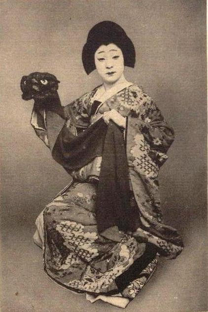 Onoe Kikugoro XI as Yayoi from Kabuki "Shunkyo Kagamijishi" in c.1920